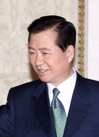 A Cropped version of File:Vladimir Putin in South Korea 26-28 February 2001-7.jpg